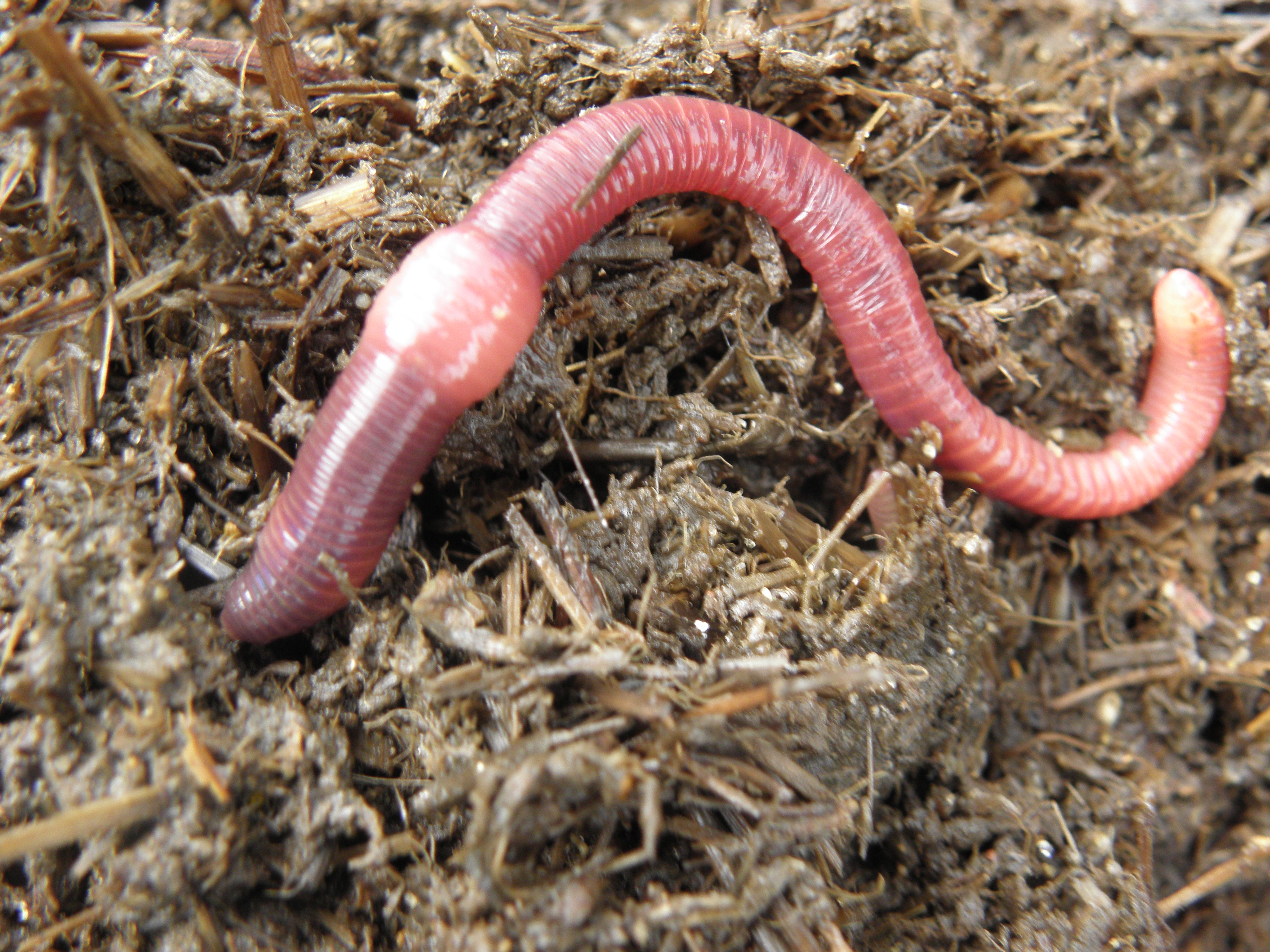 redworm